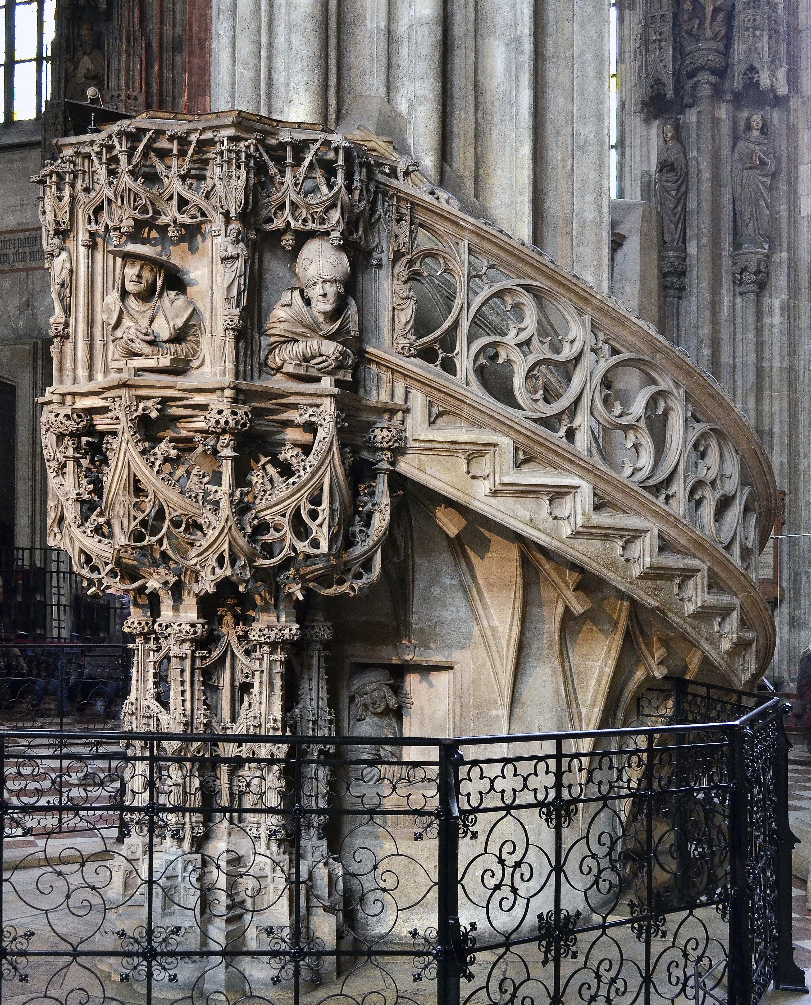 Pilgram-kanzel-stefansdom-totale